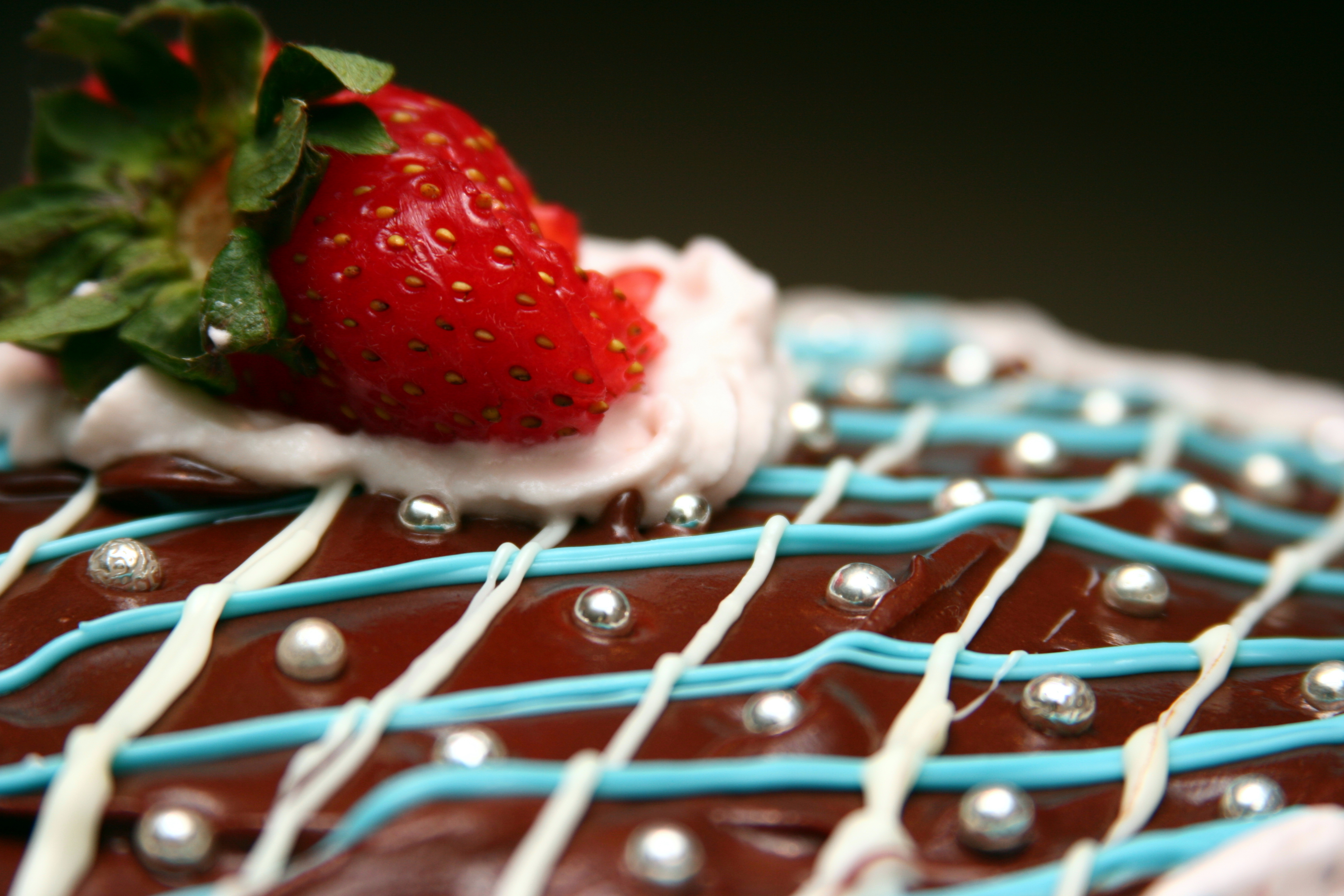 A chocolate cake decorated with icing, strawberries, and silvery sugar beads.